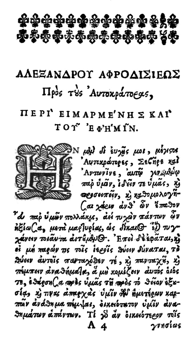 Opening paragraph of the treatise On Fate (Latin: de Fato; Greek: Pros tous Autokratoras) by the Greek philosopher Alexander of Aphrodisias. From an anonymous edition published in 1658 with the title: "Alexandri Aphrodisiensis - Ad Imperatores De Fato et de eo quod nostrae potestatis est." Published in London, and printed by Thomas Roycroft.